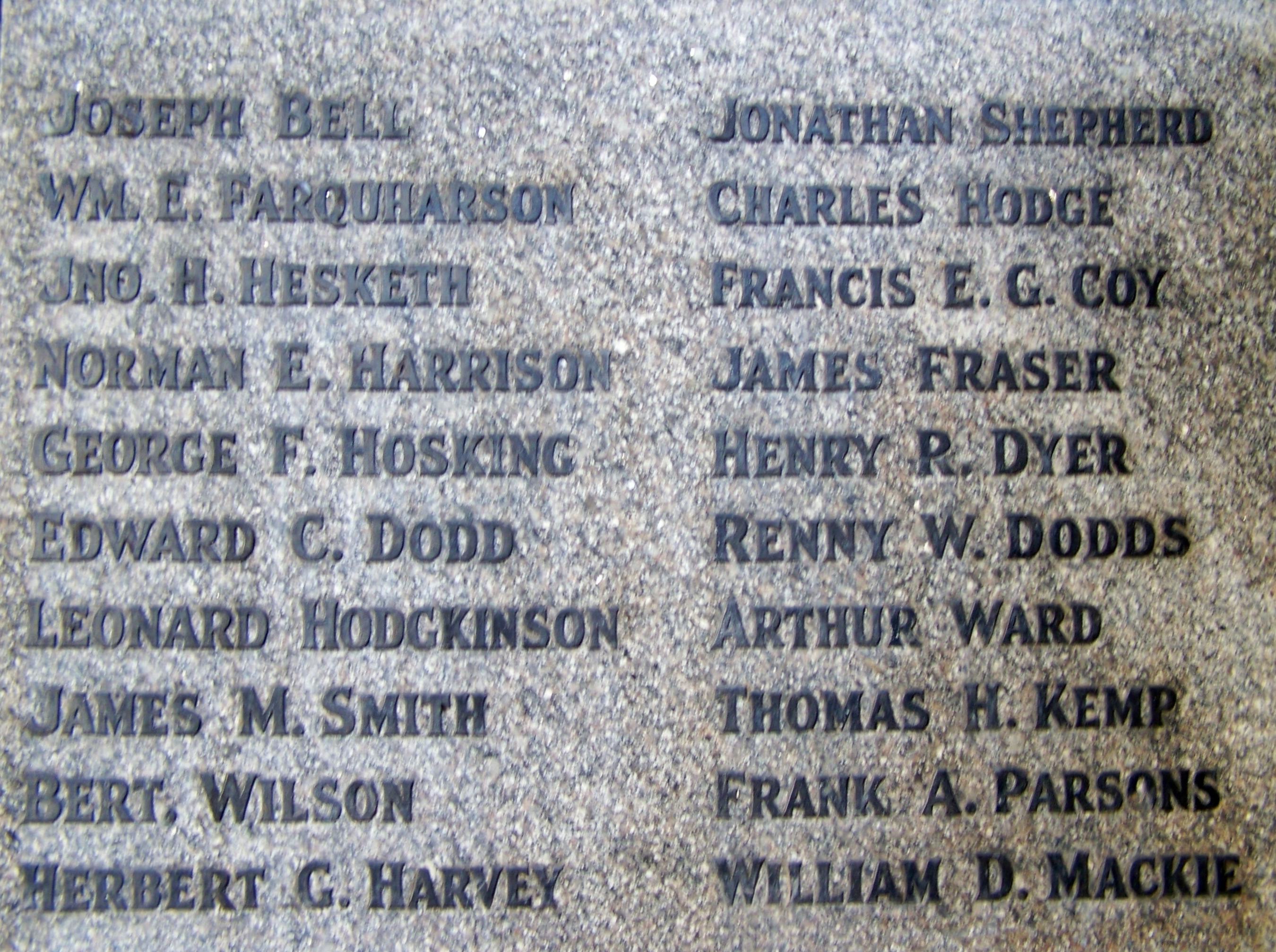 List of Engineer Officers who died in the RMS Titanic disaster on 15 April 1912